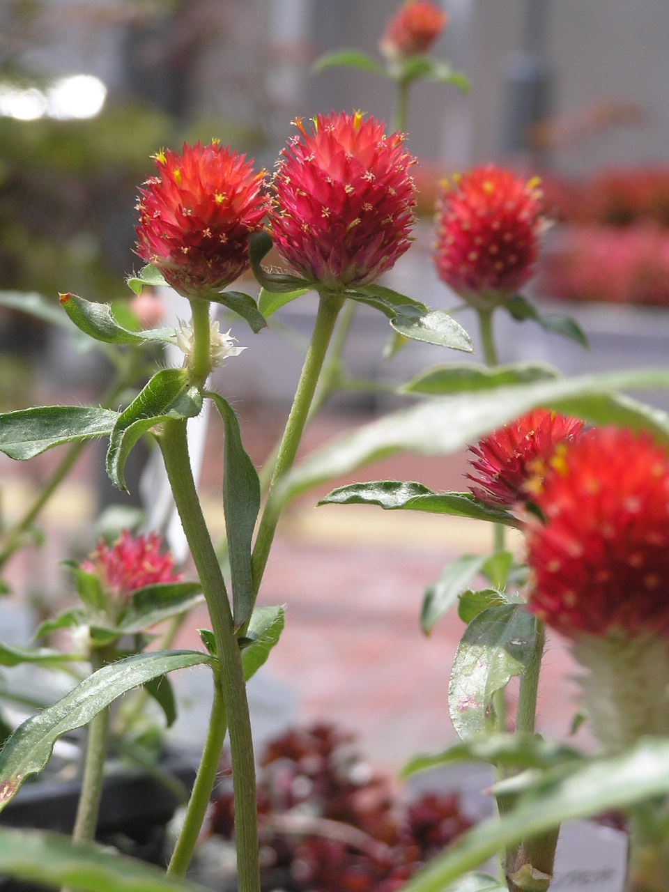 Gomphrena haageana